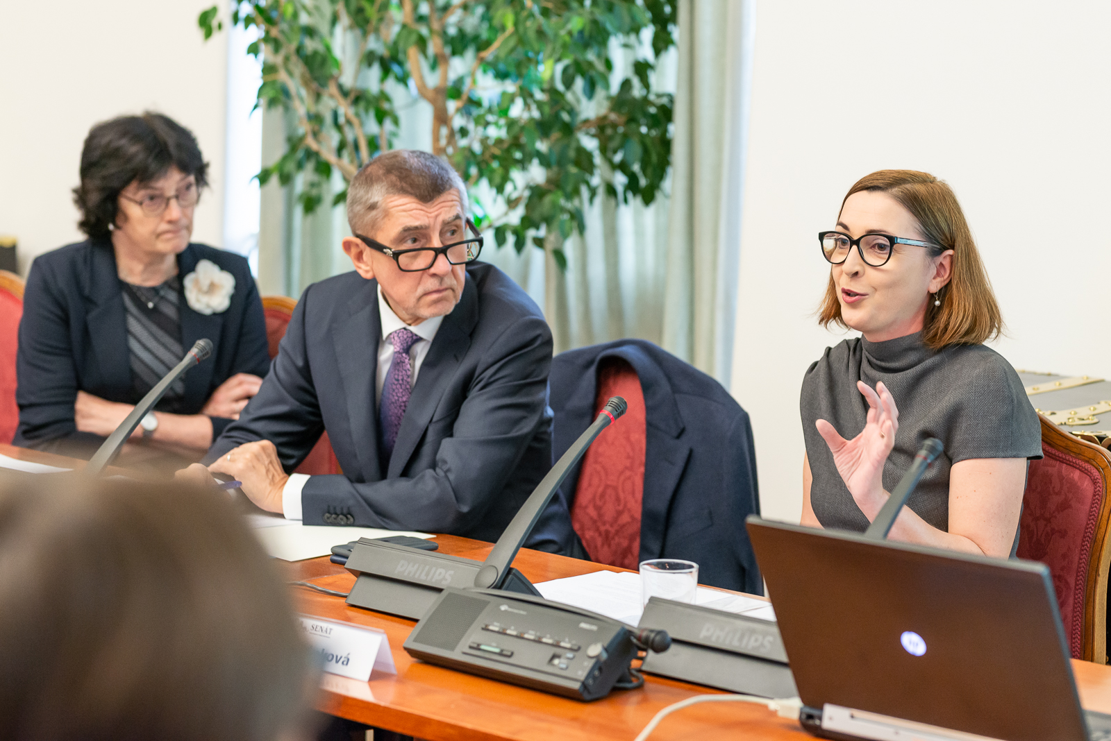 The head of the Czech Academy of Science Eva Zažímalová together with the priminister of the Czech Republci Andrej Babiš and sociologist Marcela Linková at the conference Senate of the Czech Republic